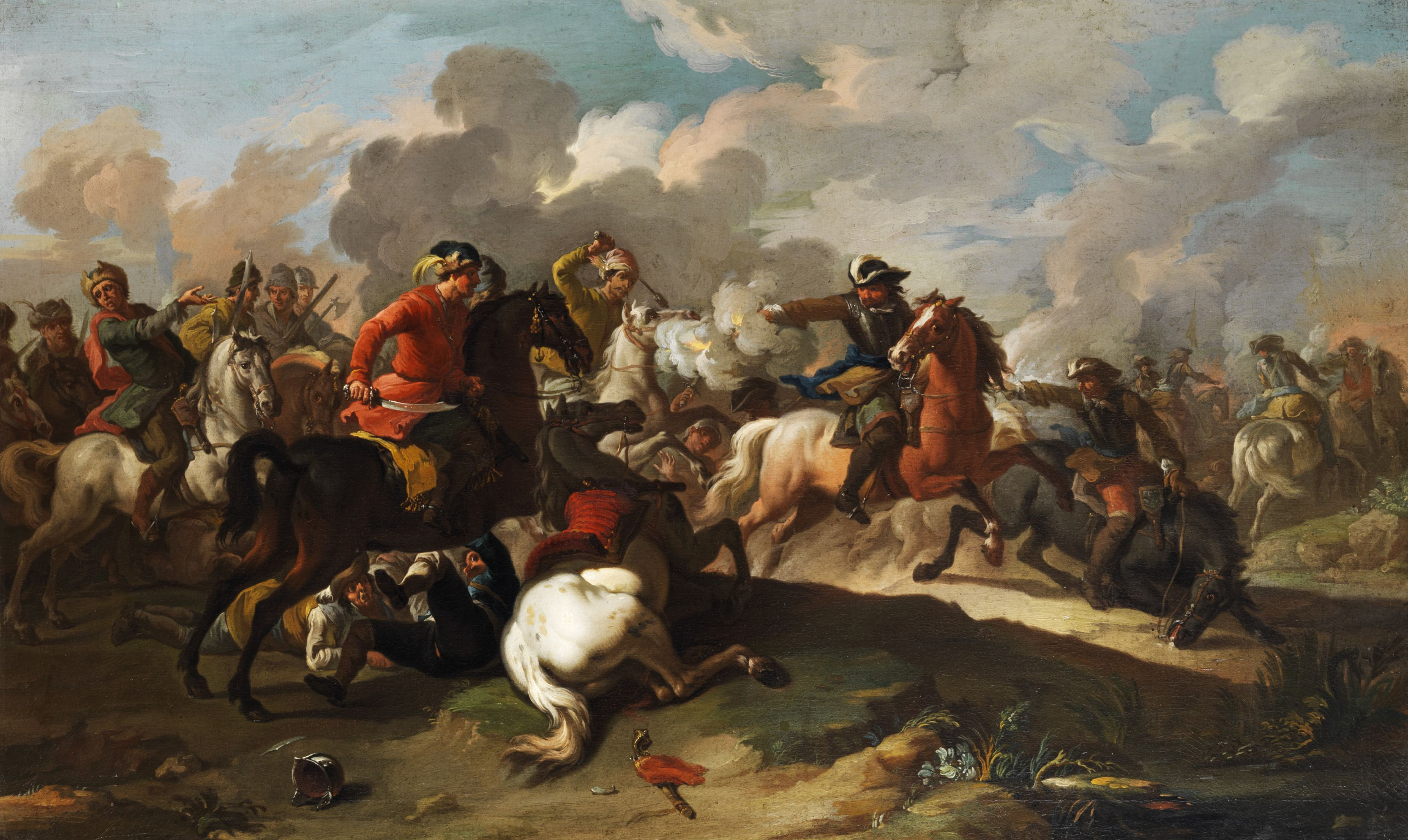 Cavalry battle between christian and turkish army. Oil on canvas. 74 x 125 cm.